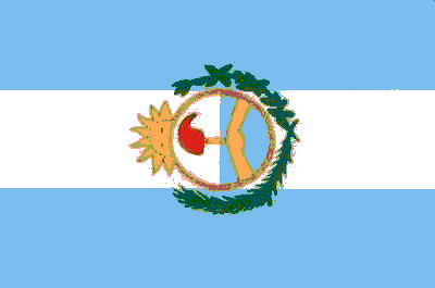 Flag of the Regiment of Río de la Plata that went to Perú. The original flag is currently exhibited at the National Historic Museum of Argentina.